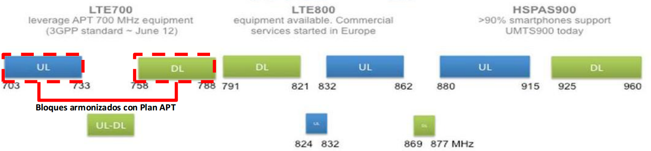 Comparison of 700, 800 and 900 MHz bands across regions